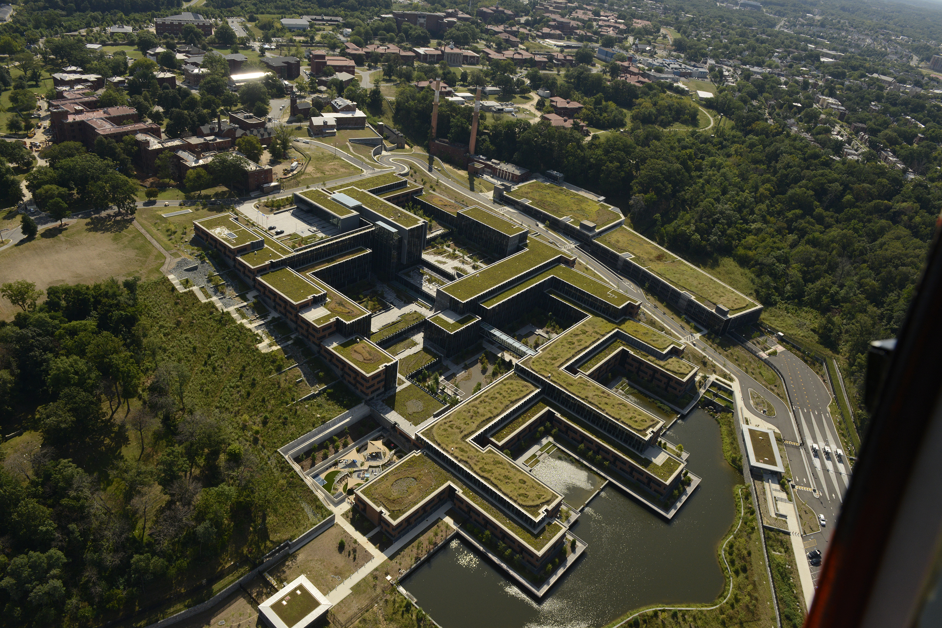 The Douglas A. Munro Coast Guard Headquarters Building located in southeast Washington is shown from the aerial perspective of a Coast Guard MH-65 helicopter Aug. 21, 2015. A ribbon cutting ceremony was held July 29, 2013, which completed the first stage of the Department of Homeland Security consolidation project on the St. Elizabeths west campus.